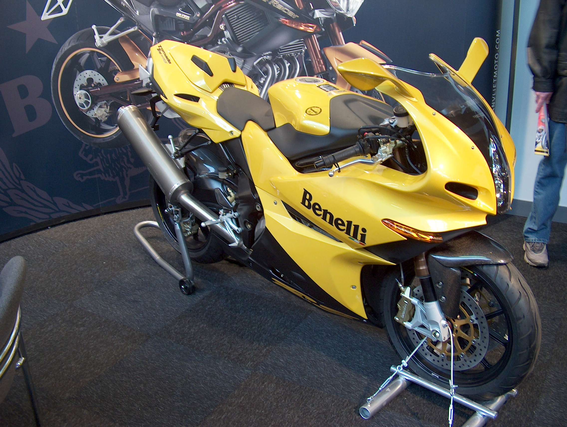 Benelli Tornado 900 Tre Novecento. Toestemming van Henk Elshout